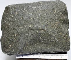 andesit 122